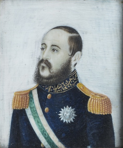 Michael I of Portugal, 19th-century, miniature on ivory